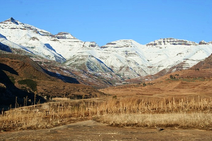 Transferred from English Wikipedia